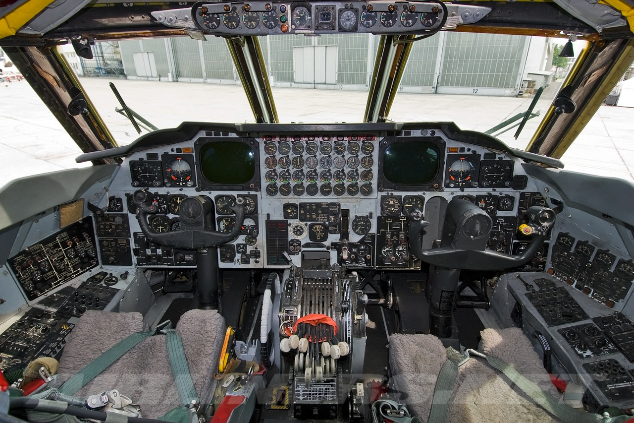 Great cockpit. ILA 2010.